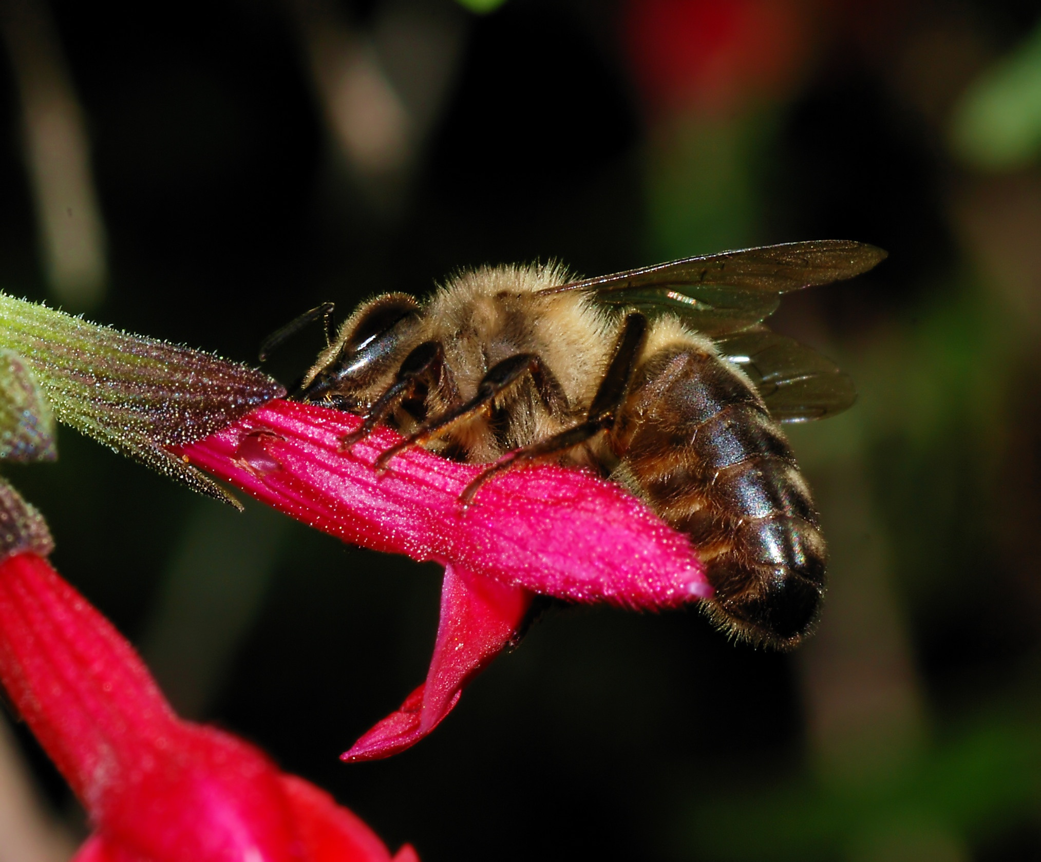 A honeybee feeding on nectar (Apis mellifera)